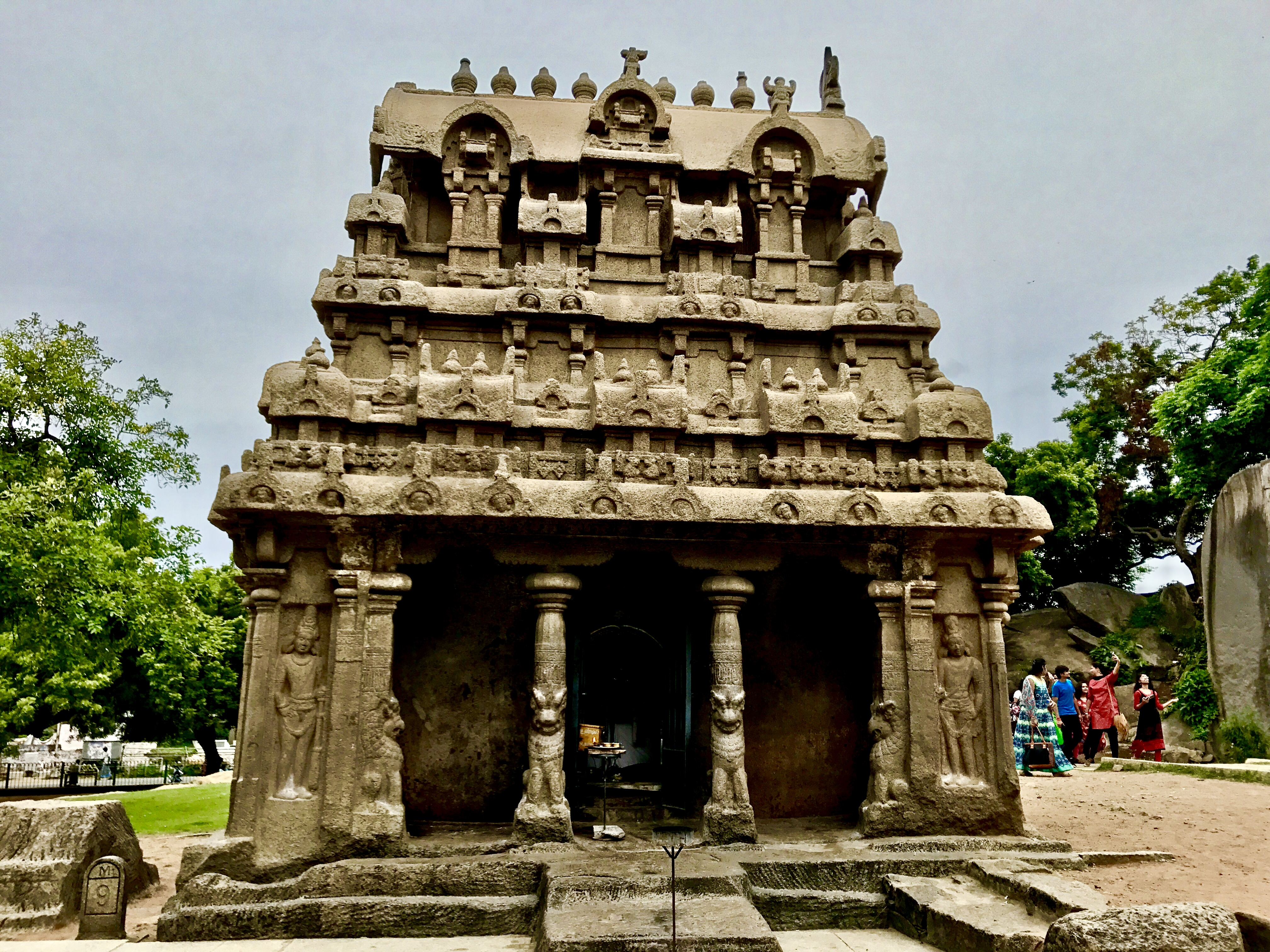 Elevation of Ganesha Ratha